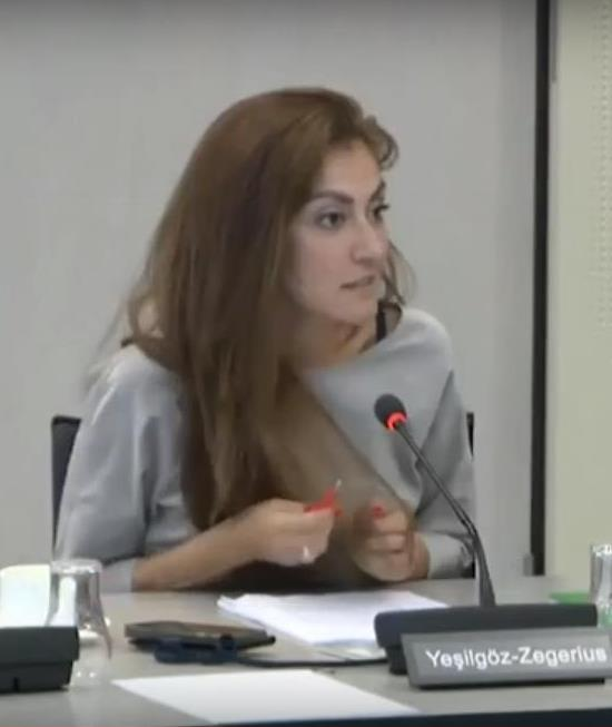 Dilan Yeşilgöz-Zegerius (2018)